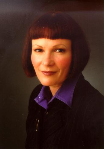 Nancy Austin, author